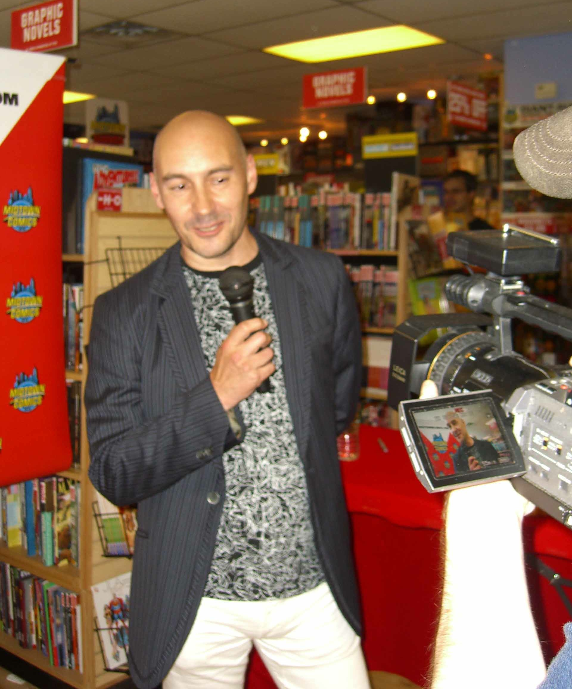 Writer Grant Morrison filming a brief plug for The Action Room at a July 19, 2011 signing at Midtown Comics Grand Central in Manhattan for his newly-published non-fiction book, Supergods. Photographed by Luigi Novi. This photo is not in the public domain. It may, however, be used, modified and published for any purpose, free of charge, only if the photographer is properly credited, either by linking the photograph to this page, or with an easily visible credit to the photographer placed near the photo in each instance in which it is used. (See licensing information below.) Publication of this photo without this proper attribution constitutes copyright infringement. If you have any questions, you can contact me on my Wikipedia Talk Page.